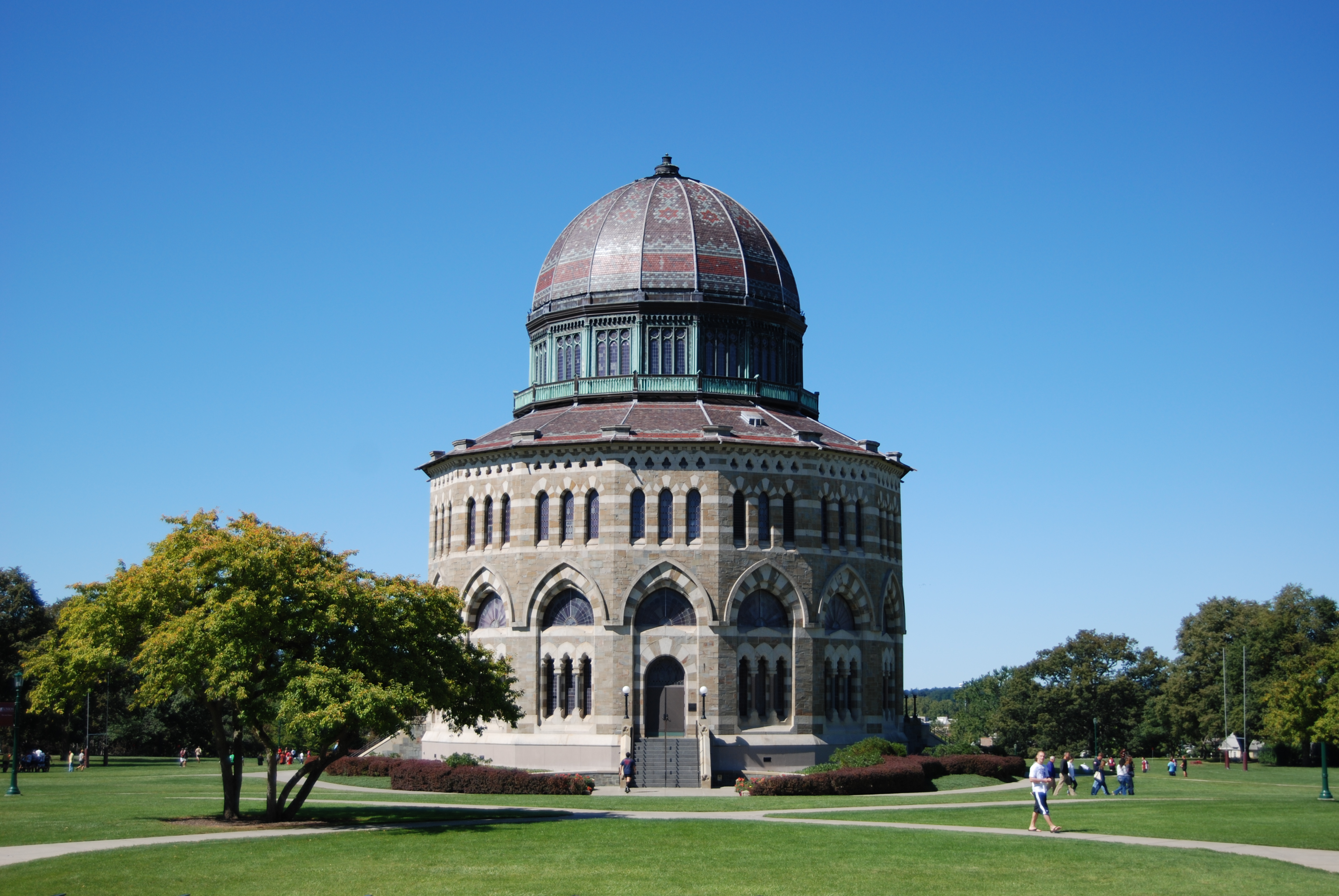 Nott Memorial Hall, built in 1858 on the campus of Union College in Schenectady, New York, United States, commemorates Eliphalet Nott, president of Union from 1804 to 1866 (for which he became, and still remains, the longest serving college or university president in United States history). The structure was placed on the National Register of Historic Places in 1972 and subsequently became a National Historic Landmark in 1986. It is currently used as a student lounge and study area, a display space for art, and for special events on campus.